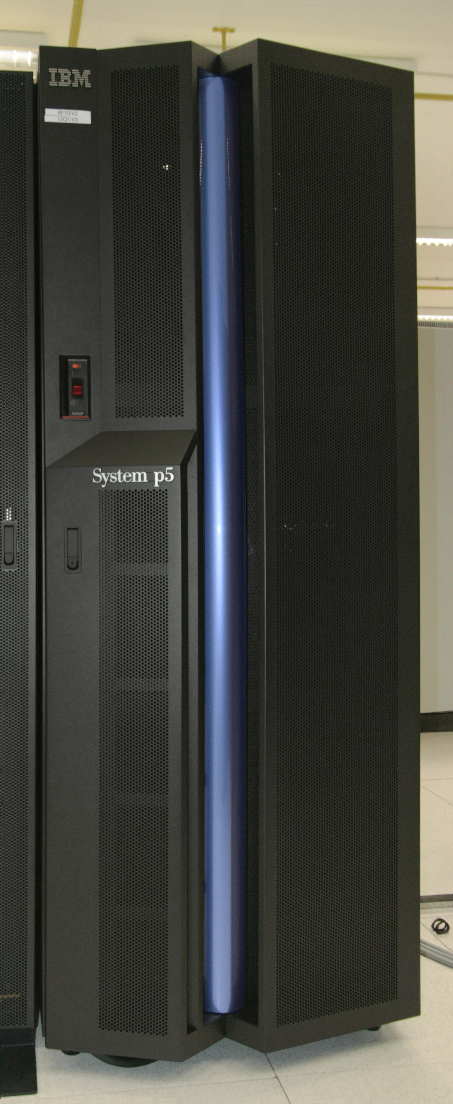 IBM p595 front